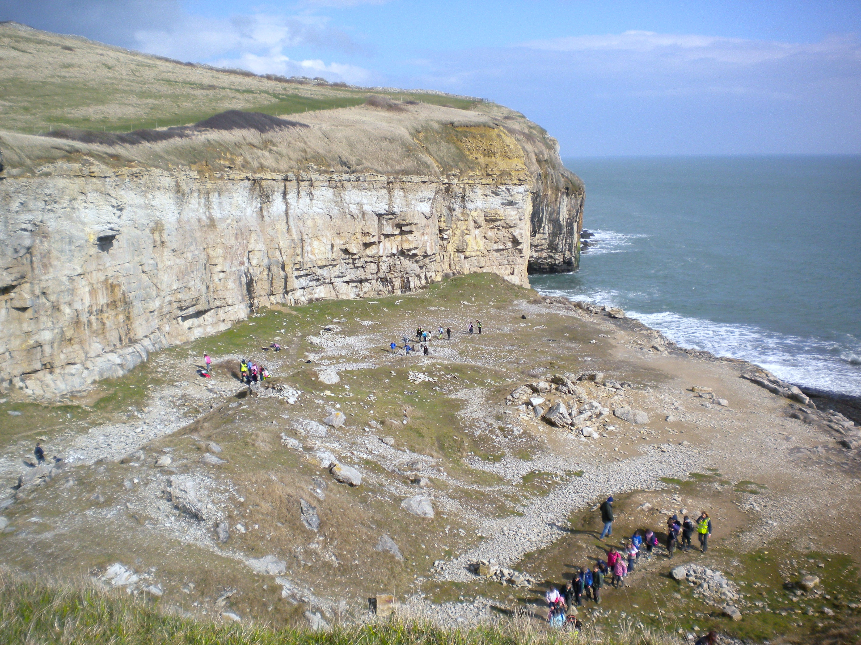 Dancing Ledge on the Isle of Purbeck, Dorset, England, seen from the stone steps leading down from the cliff top.